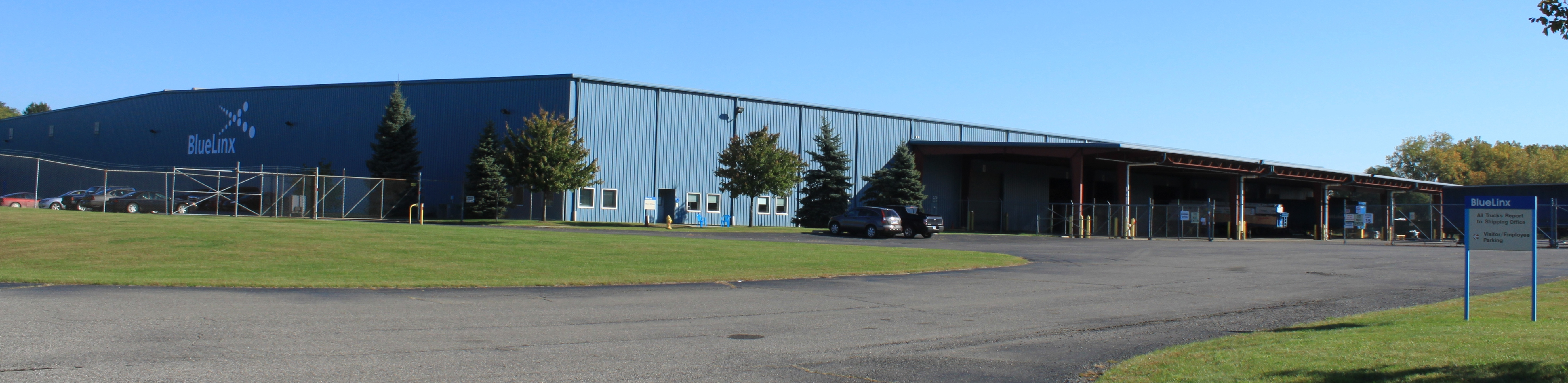 BlueLinx warehouse, 6101 McKean Road, Ypsilanti Township, Michigan.